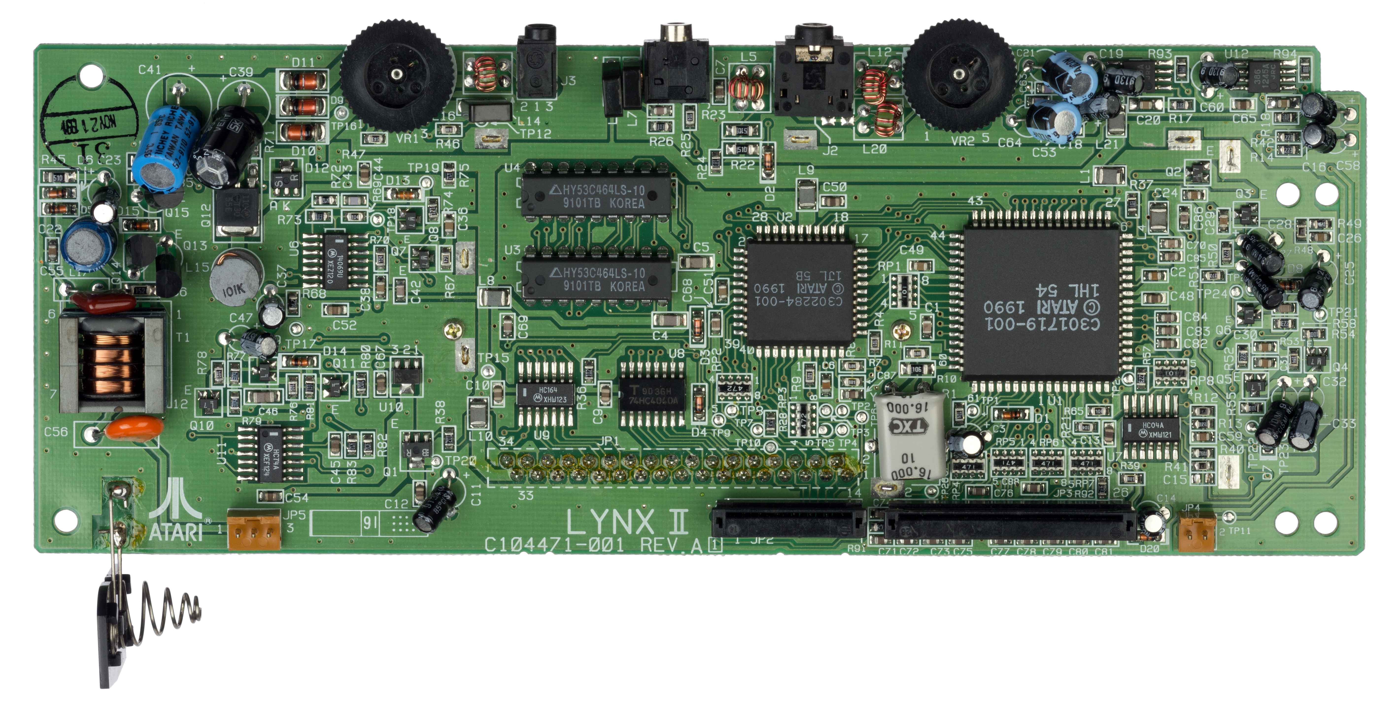 The motherboard of an Atari Lynx II, the revised version of the original Atari Lynx. This motherboard's manufactured or check date is November 21, 1991. Note that this board has had the aluminum RF shielding removed so that the chips underneath can be seen. The large chip on the board, the C301719-001 CPU, is called "Mikey" and the smaller one, the C302284-001, is called "Suzy." This particular board is listed as a Revision C104471-001 Rev. A model.